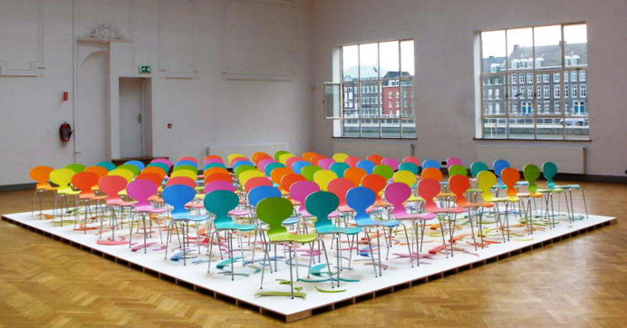 Maastricht, the Netherlands. View of the 2011/12 exhibition Out of Storage with works from the collection of FRAC Nord-Pas de Calais in the Timmerfabriek in Maastricht. Here: Copyright (coloured version) by Superflex, on display in the former Sphinx showroom.